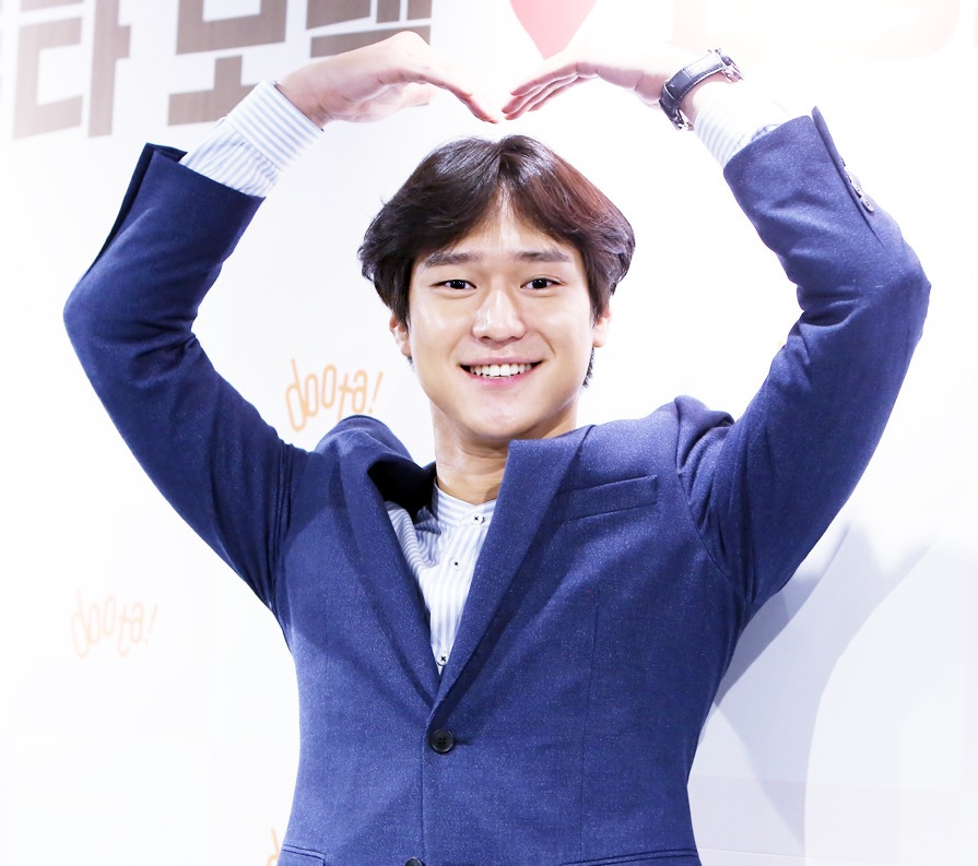 160213 두타 팬사인회 고경표